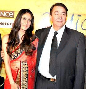 Indian actress Kareena Kapoor along with father Randhir Kapoor at the premiere of her film 3 Idiots (2009)